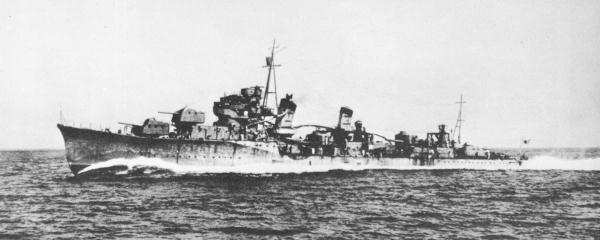 Imperial Japanese Navy destroyer Nenohi (Hatsuharu-class) as initially built on full speed trial at Tokyo Bay.